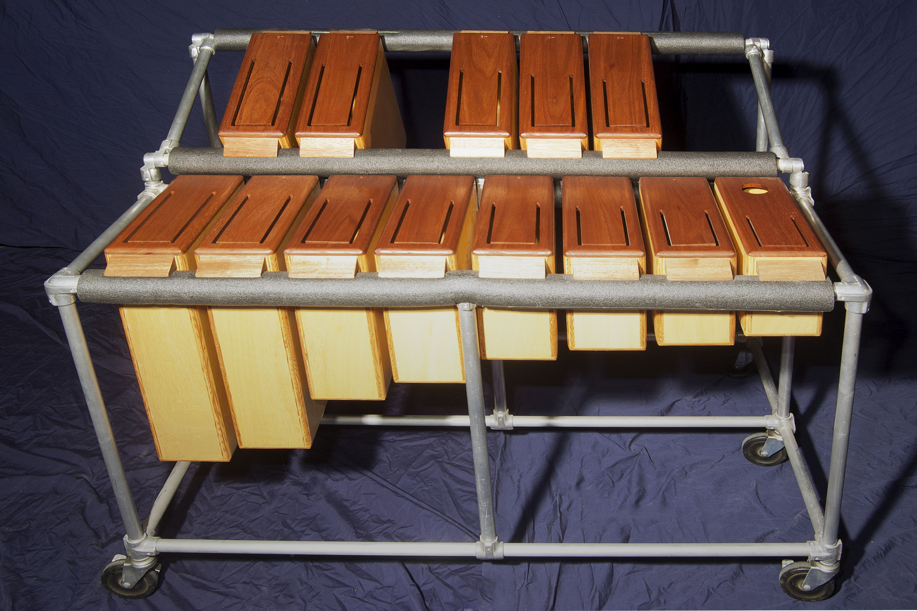 Tuned log drums (from Emil Richards Collection), range C3-C4